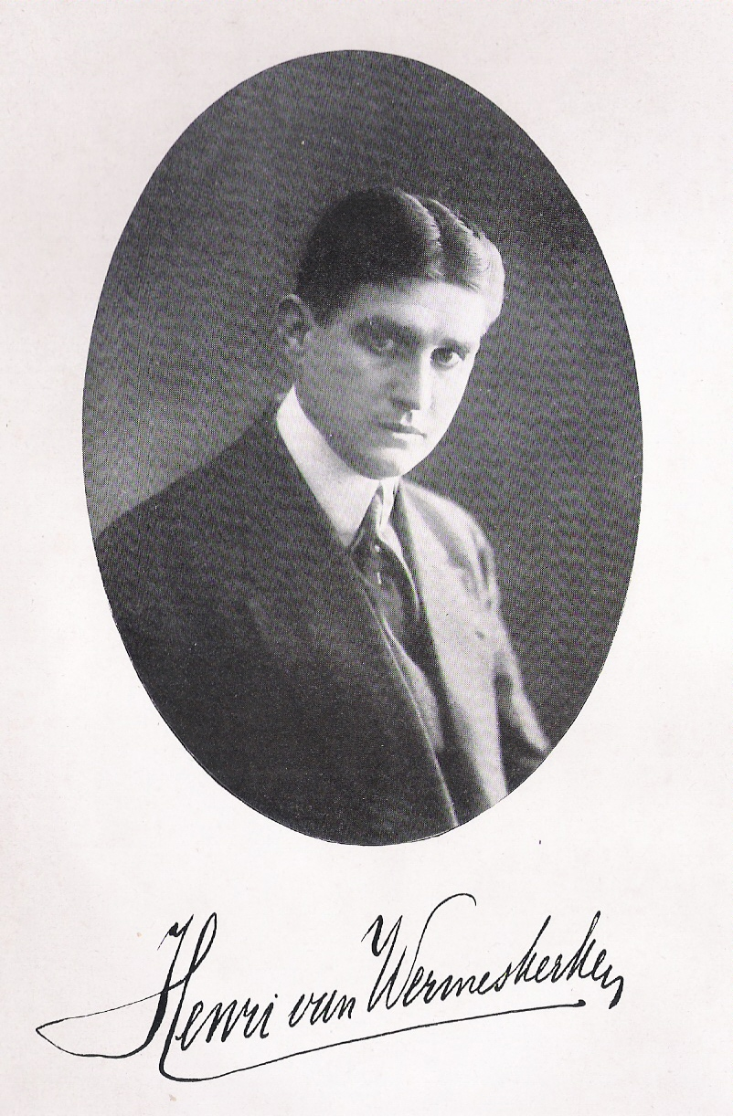 Henri van Wermeskerken